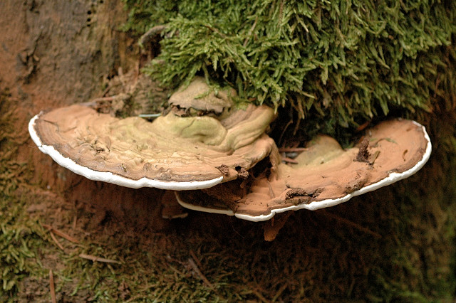 Ganoderma applanatum from Commanster, Belgium. The determination of the species shown in this picture has been verified.